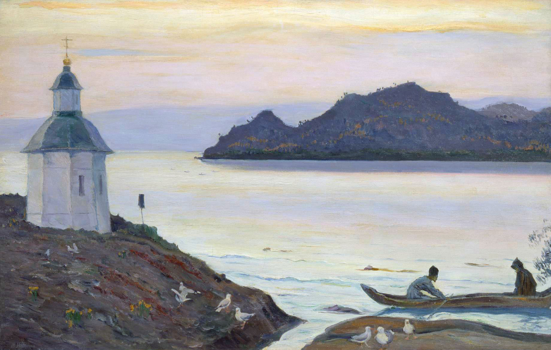 Solovki